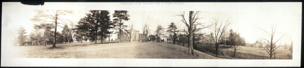 A picture of Allegheny College in 1909; a digital image was taken in 2008, and uploaded by .